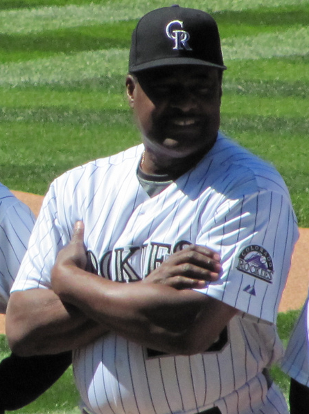 Don Baylor